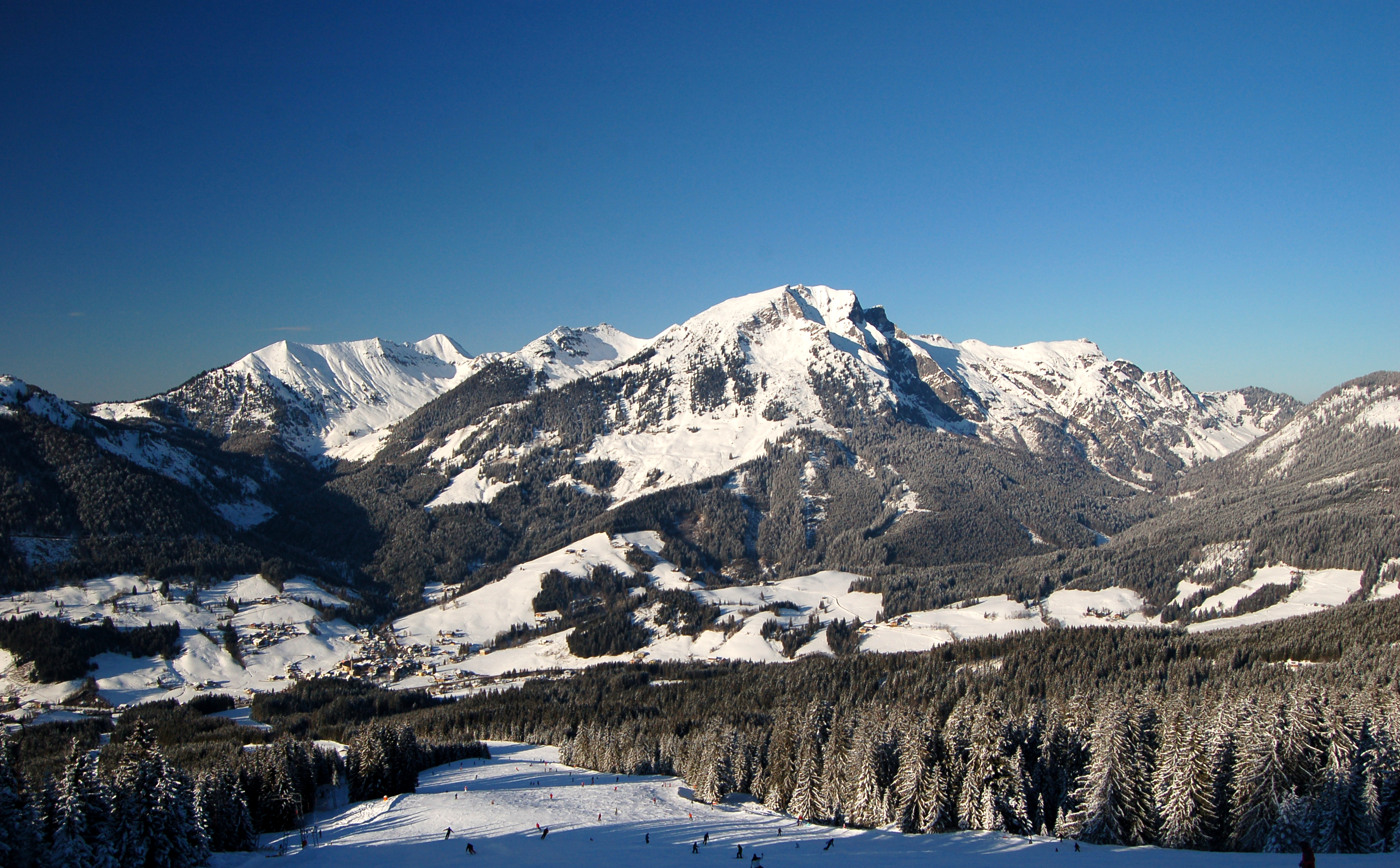 Gamsfeld (2027m), a mountain in the Osterhorngruppe in Salzburg, Austria. Seen from just under the top of Hornspitz (1433m) to the north. f.l.t.r.: Moosbergriedel (1788m), Braunedlkogel (1894m), Rinnbergsattel; Schmalztrager (1889m), Gamsfeld (2027m), Wilder Jäger (1824m). Down in the valley Russbach am Pass Gschütt.